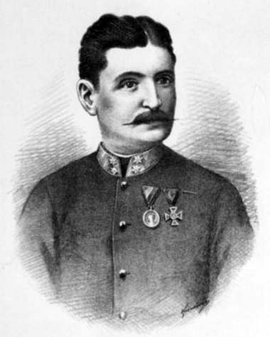 Picture of Josip Runjanin